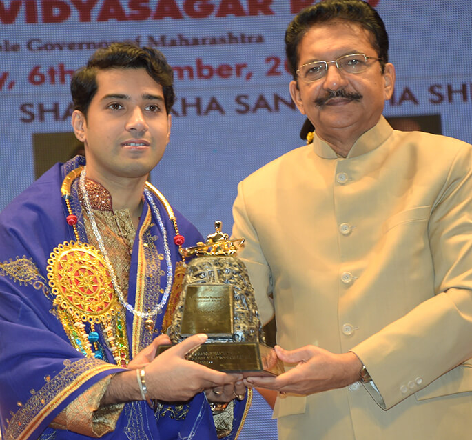 Picture of Samrat Pandit receiving Sangeet Shiromani Award from the governor of Maharastra at Shanmukhananda Hall (Mumbai, India) in 2014